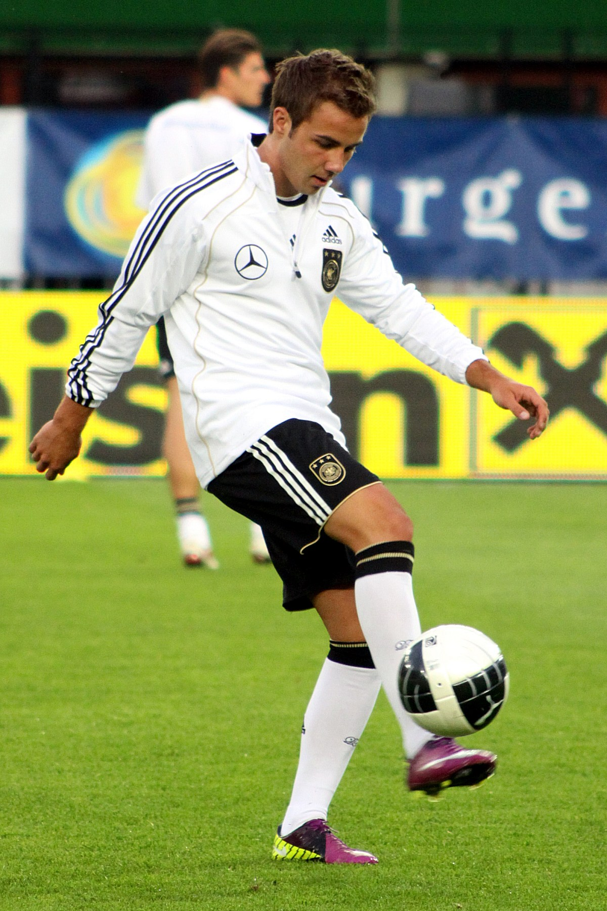 Mario Götze (Borussia Dortmund), german national football team